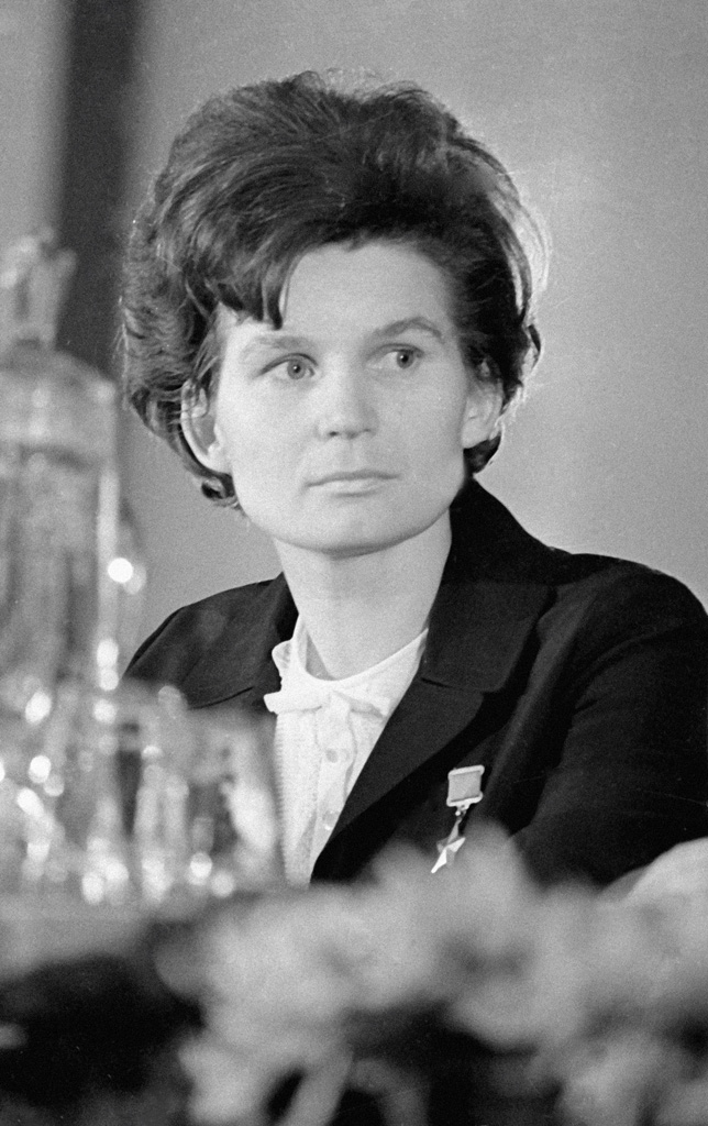 “Valentina Nikolayeva-Tereshkova”. Pilot-Cosmonaut of the U.S.S.R. Valentina Nikolayeva-Tereshkova.